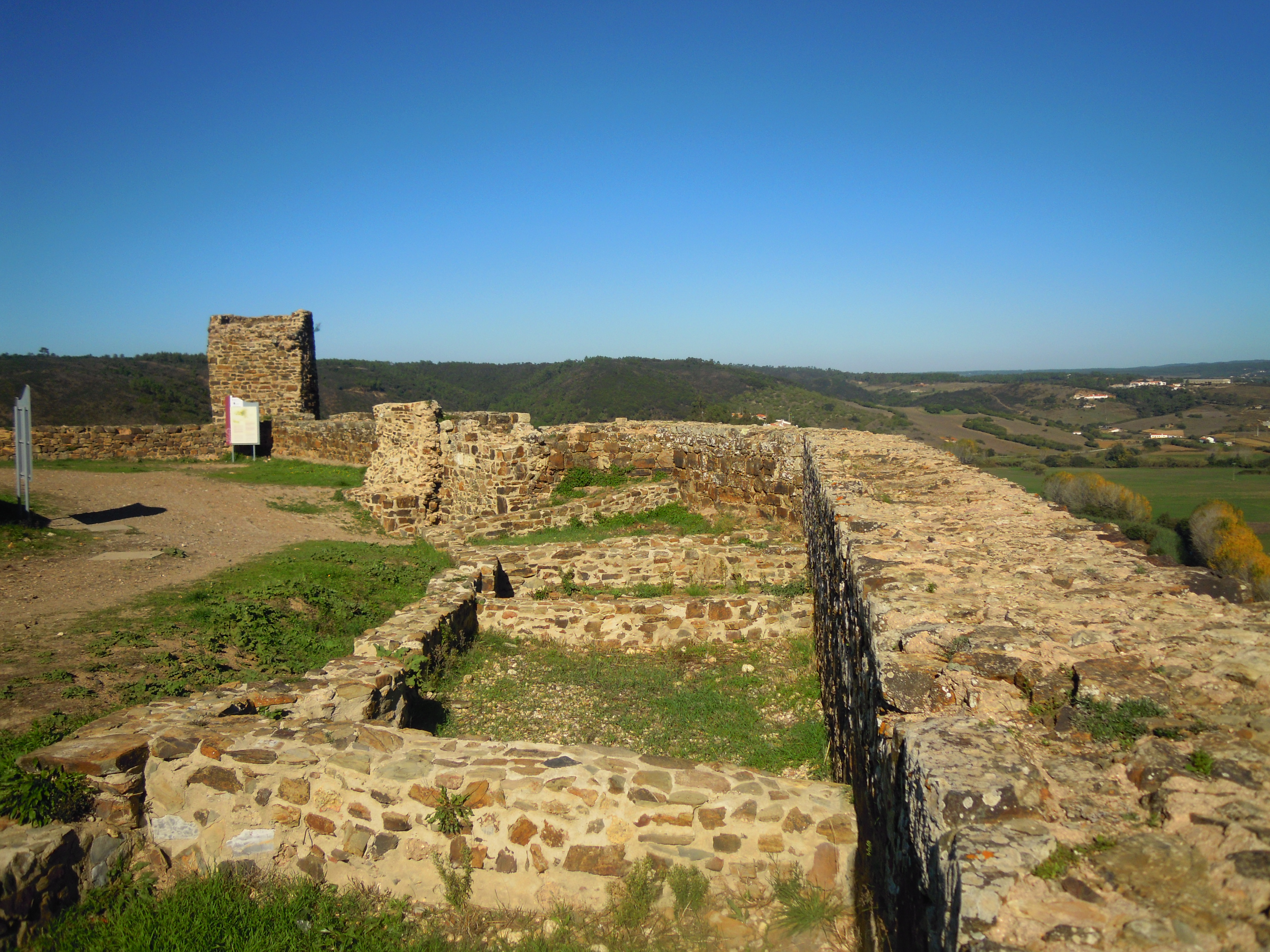 Photograph of the interiour of the Castle at Aljezur , in the municipality of Aljezur, Algarve, Portugal